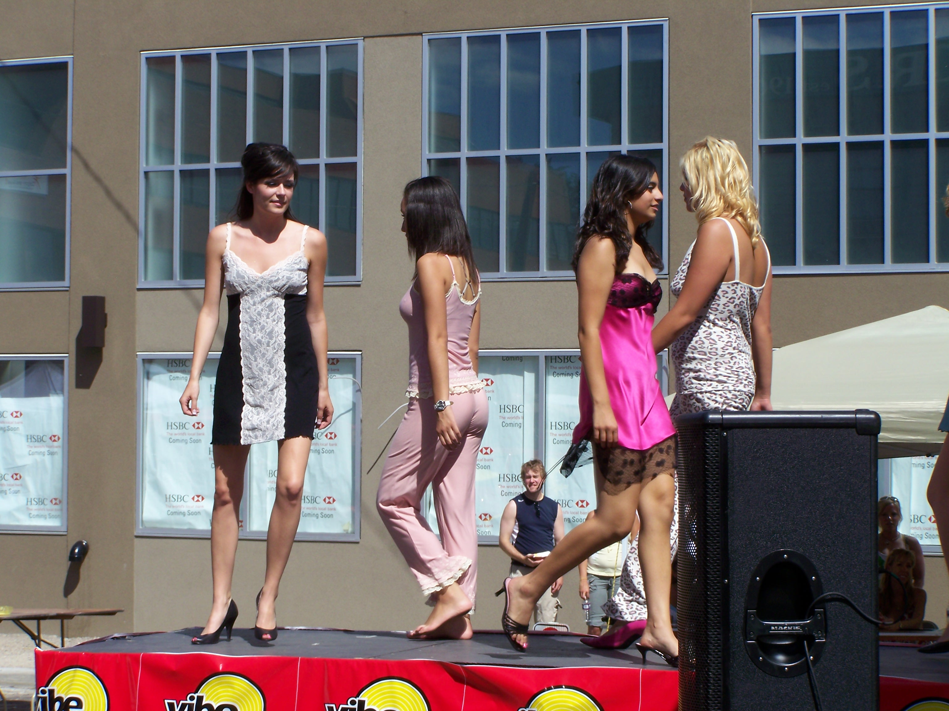 Four models walk the catwalk at a fashion show, which was part of the Sun and Salsa Festival in Kensington in Calgary, Alberta, Canada.